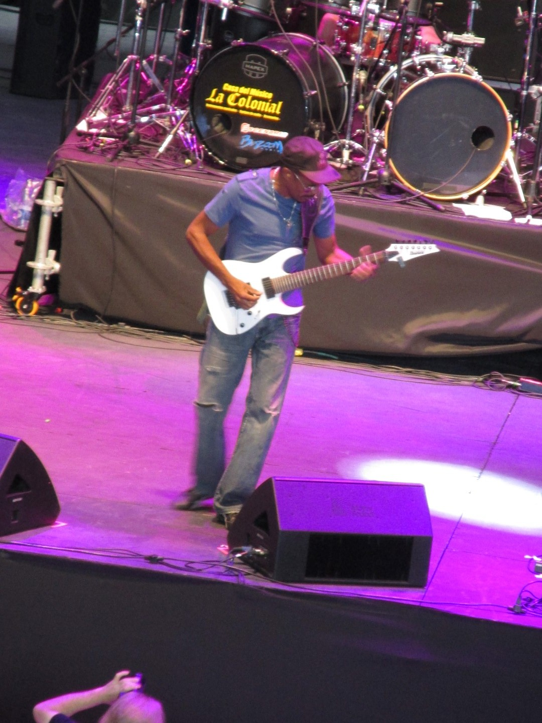 Tony MacAlpine in Bogota, Colombia, 2014